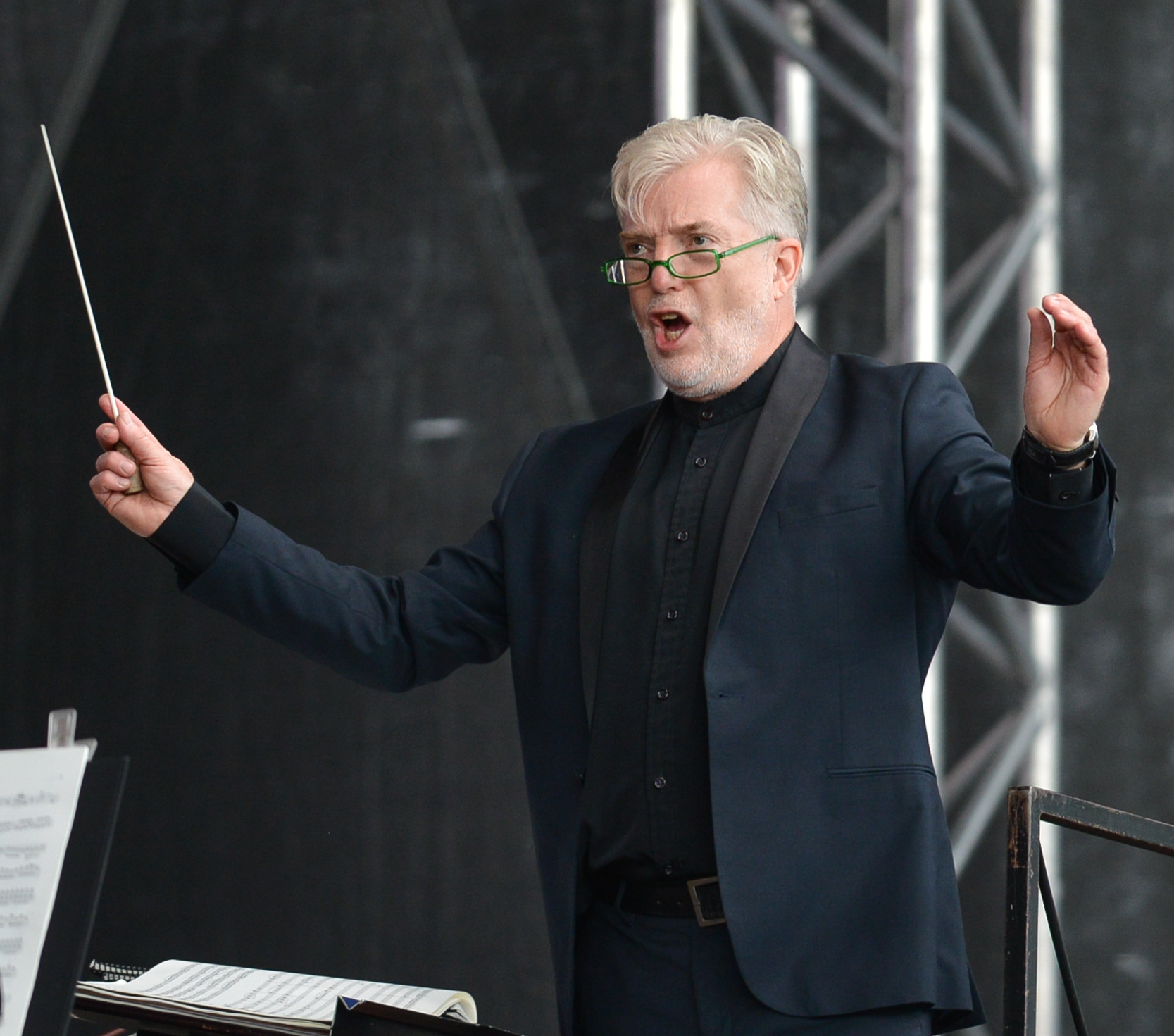 Mika Eichenholz during DN-konserten in Stockholm August 12, 2018.